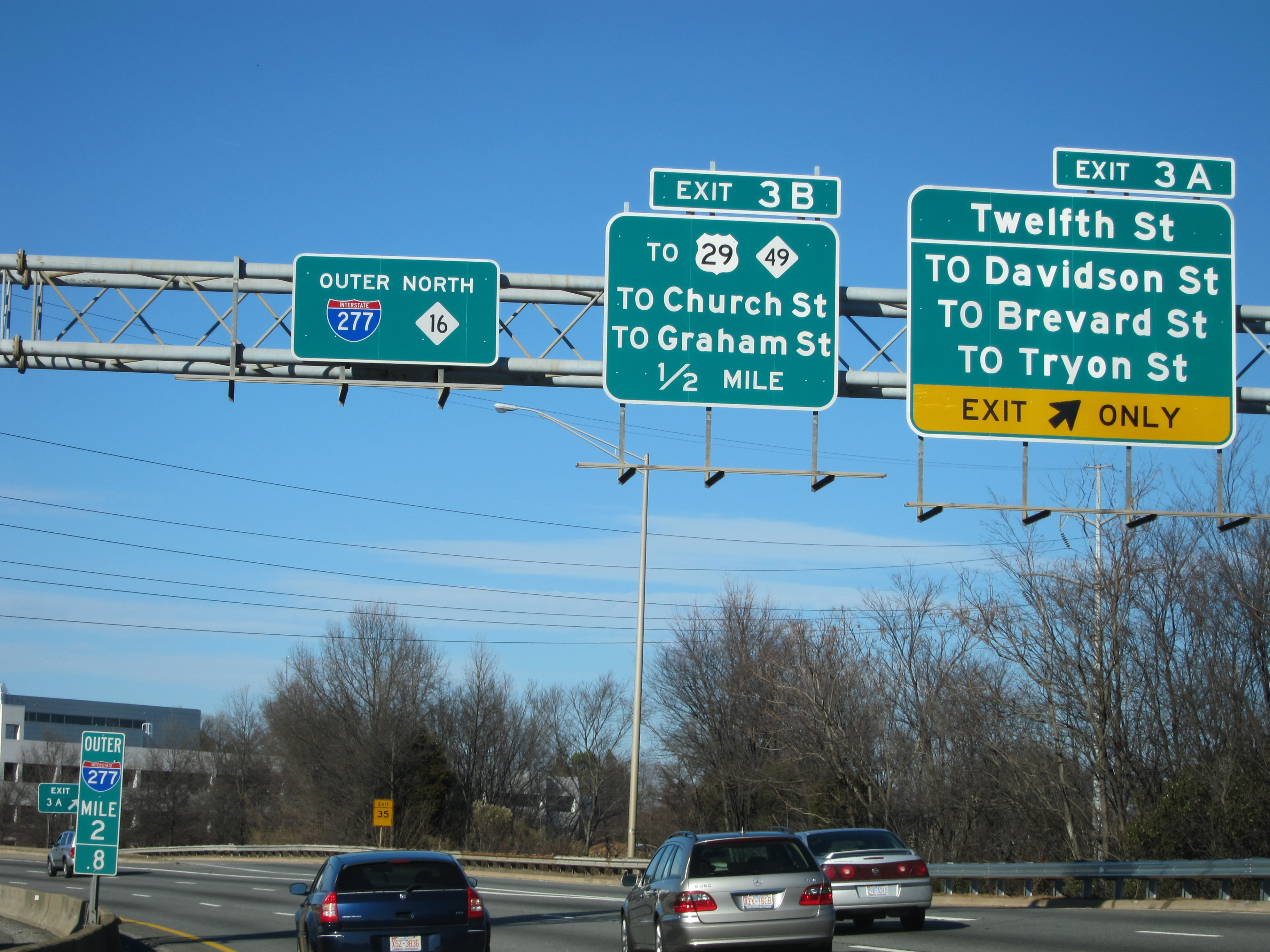 Overhead sign along outer/north I-277 & NC 16 along Brookshire Freeway, in Charlotte, North Carolina.